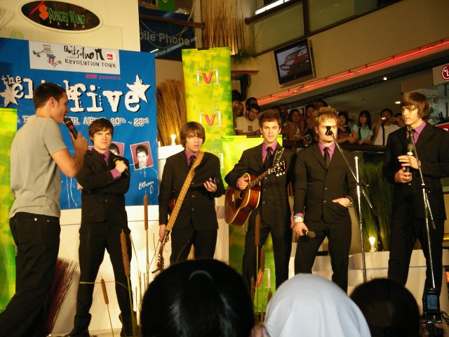 Photograph by gxianfu of the power pop group Click Five being interviewed in April 2006.